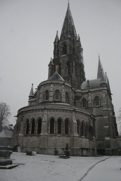 Saint Finbarres Cathedral on the south side of the river in Cork on a winters day.